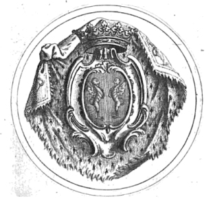 Crest image taken from a French Translation of the book: "Voyage du Tour du Monde"